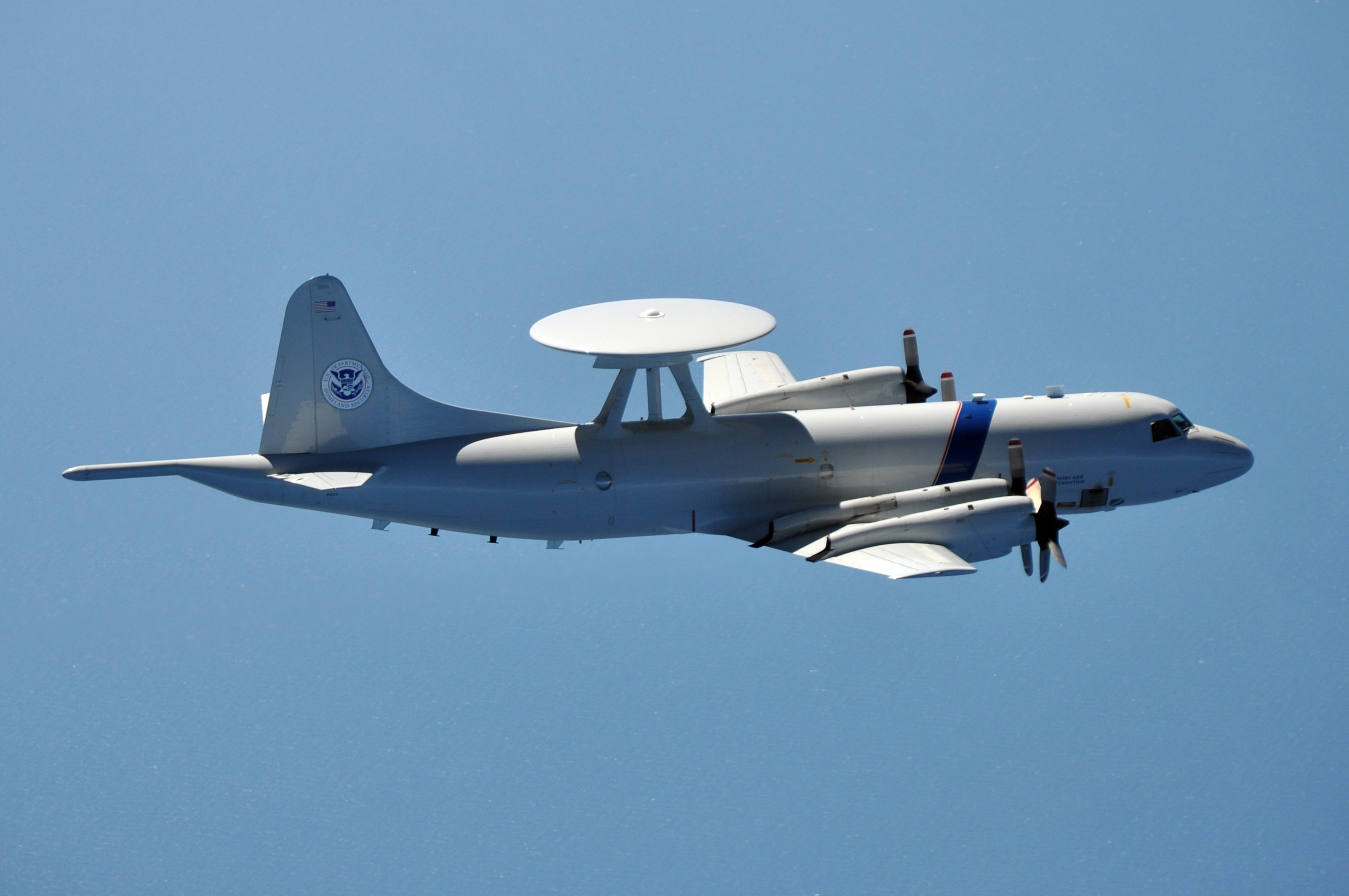 A Lockheed P-3B Orion AEW of the U.S. Customs and Border Protection service in flight. The P-3 Airborne Early Warning Detection and Monitoring aircraft are utilized primarily for long-range patrols along the entire U.S. border, and in source and transit zone countries, throughout Central and South America. The aircraft carries a crew of eight (pilot, copilot, flight engineer, and radar/sensor operators), are routinely sent on temporary duty to support the United States and foreign government initiatives to stem smuggling into the United States.